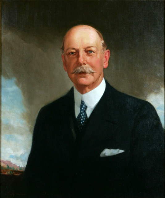 Turn-of-20th-century oil portrait of Frederick William Vanderbilt, Yale 1876, Benefactor of St. Anthony Hall. Painting in St. Anthony Hall collection, New Haven, CT.